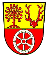 Coat of Arms of Rothenbuch